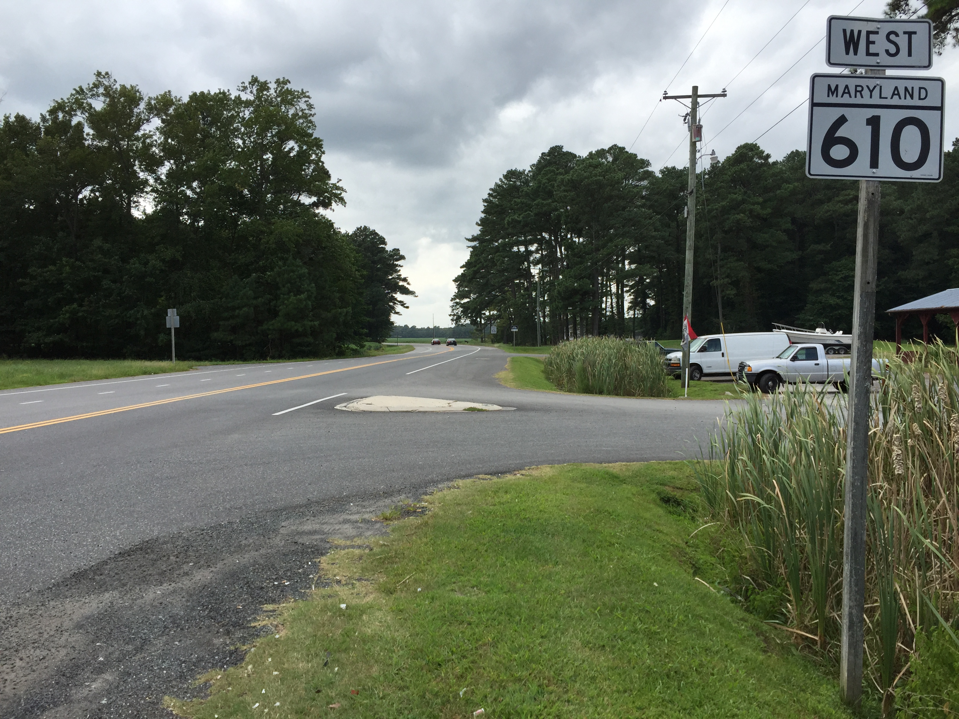 View west along Maryland State Route 610 (Whaleysville Road) at U.S. Route 113 (Worcester Highway) in Bishop, Worcester County, Maryland